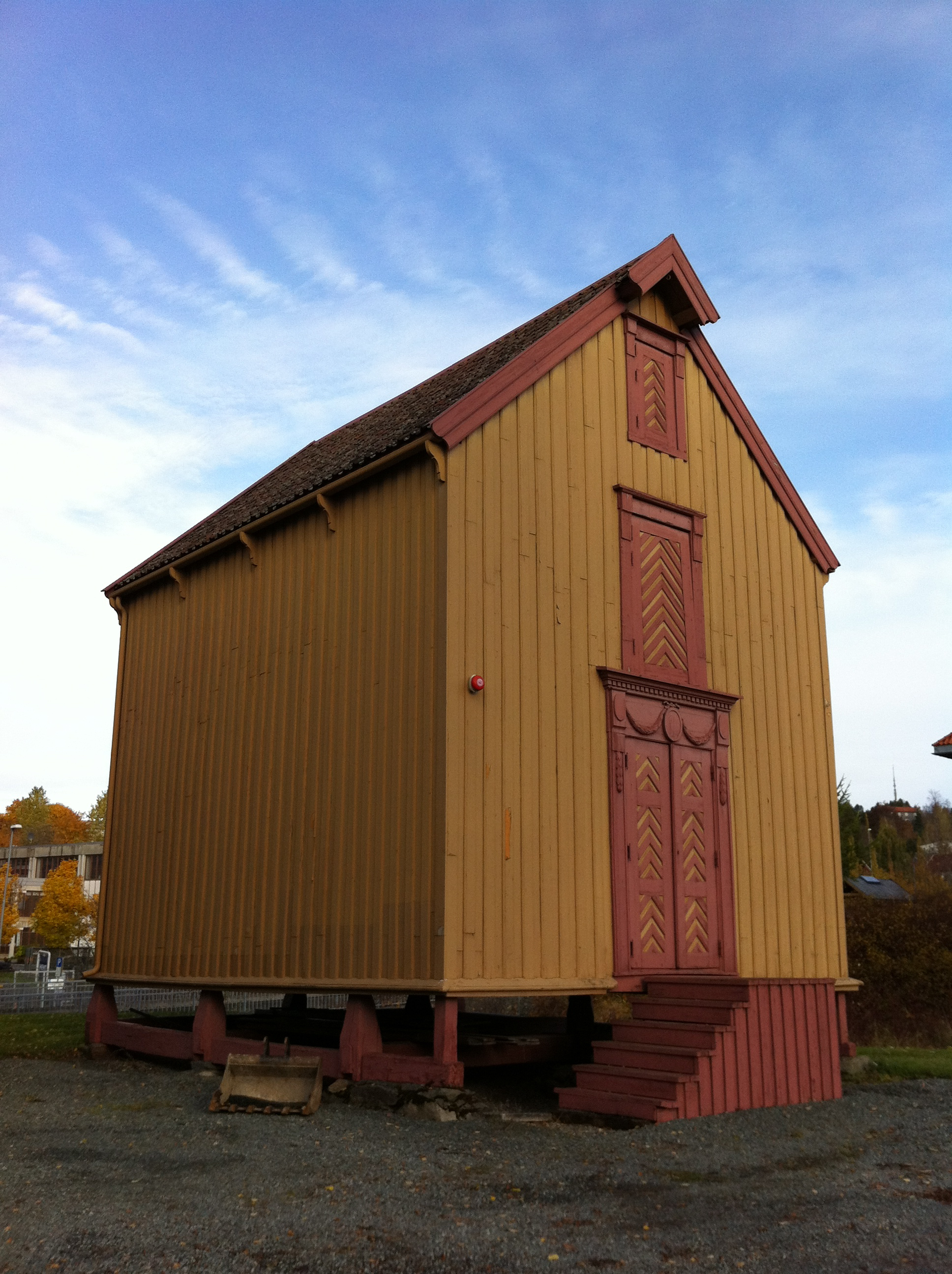 Lerchendal gård(=manor), Trondheim, Norway. The storehouse (on pillars) (in Norwegian: Stabbur). Traditional Norwegian building method. The building dates from late 1700 early 1800